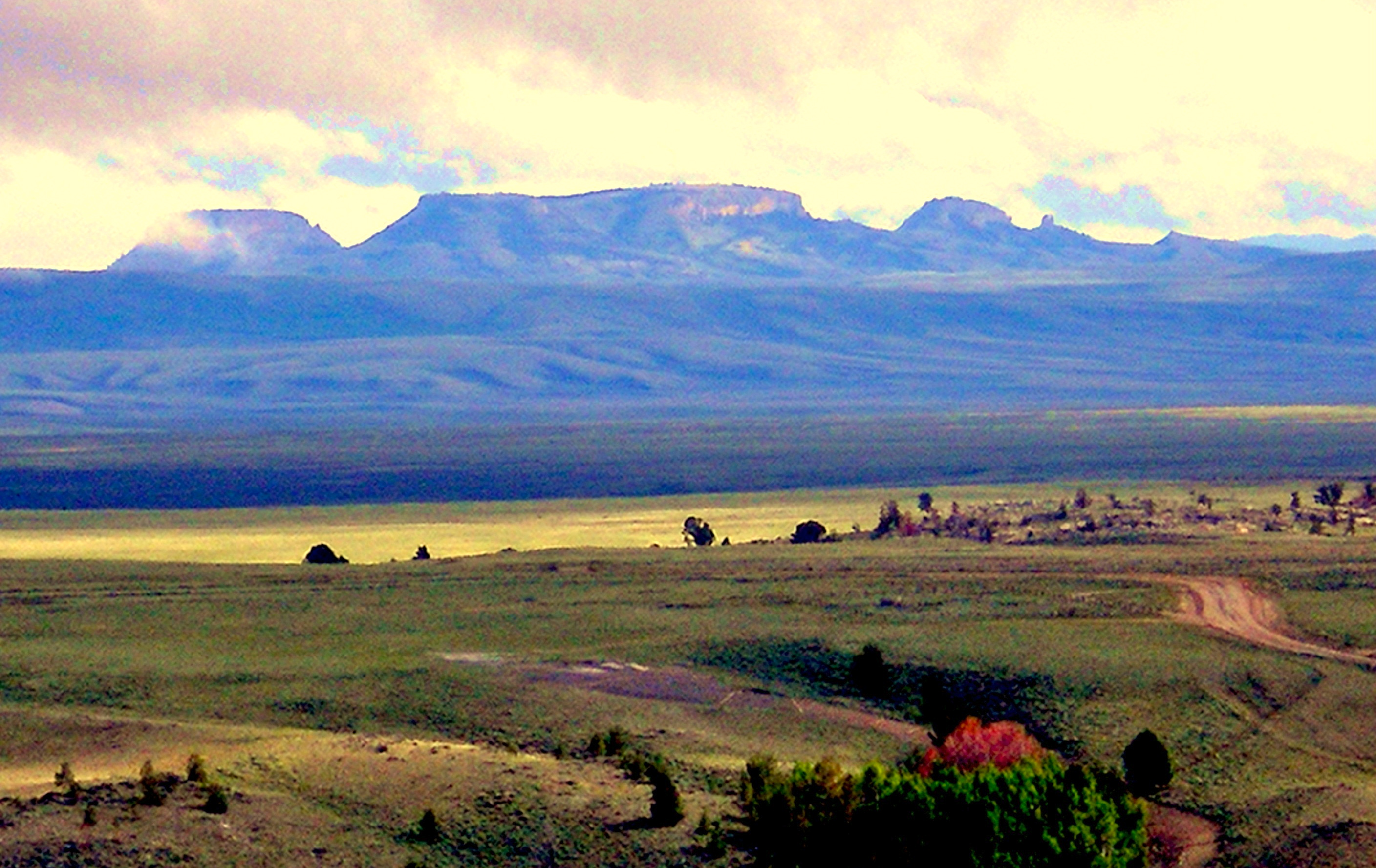 Historic landmark near South Pass City on the Oregon Trail